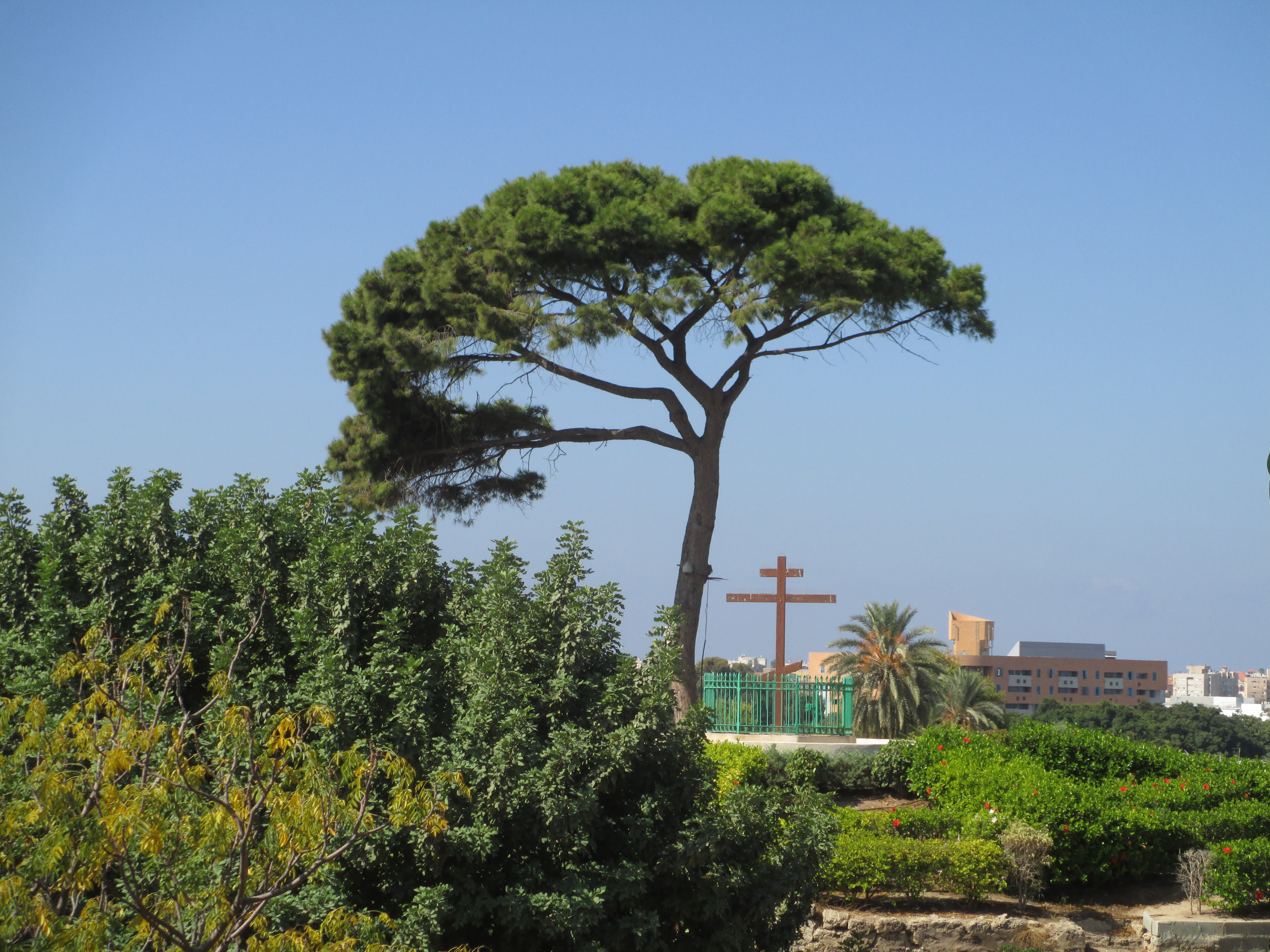 Russian Church in Jaffa